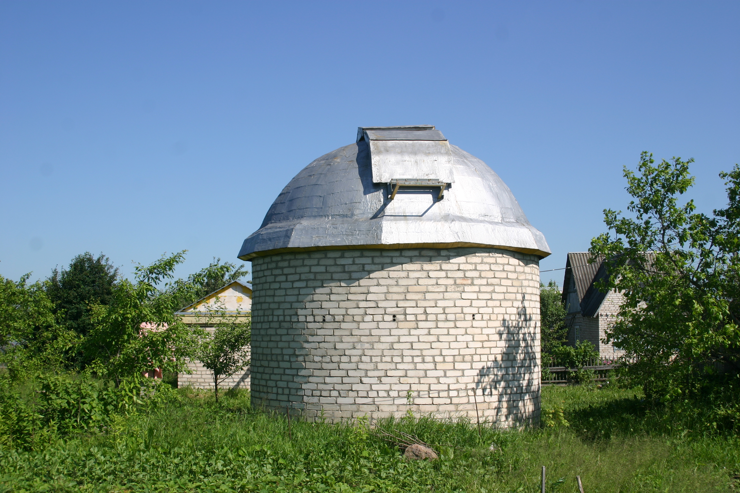 Astronomical observatory «Taurus-1» (MPC COD A98, Belarus), constructed by S.Shurpakov